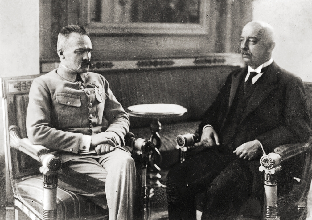 Józef Piłsudski (left) as a Chief of State and first President of Poland Gabriel Narutowicz (right).